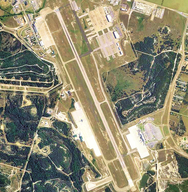 USGS digital orthophoto of Killeen-Fort Hood Regional Airport in Texas